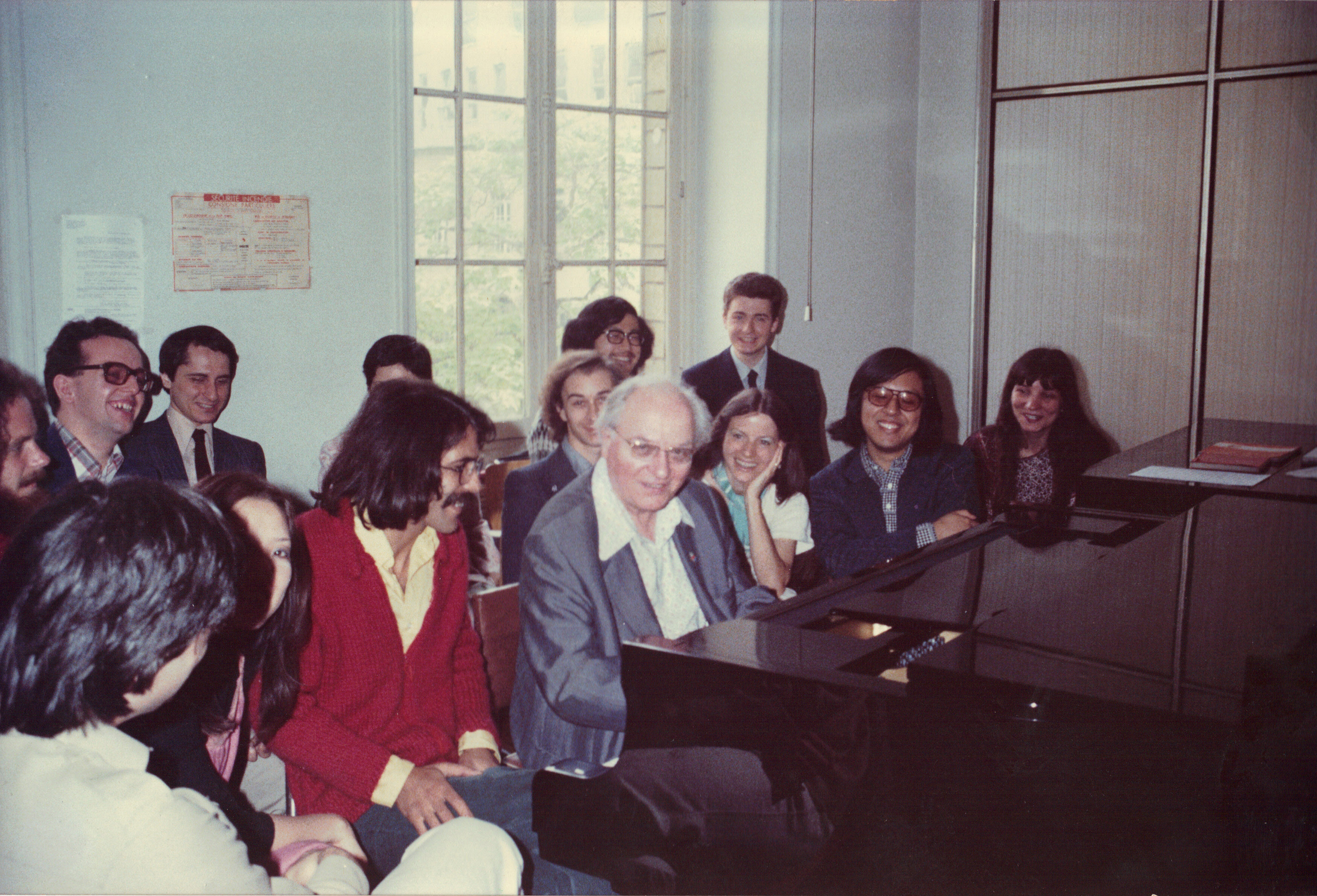 Classe d'Olivier Messiaen